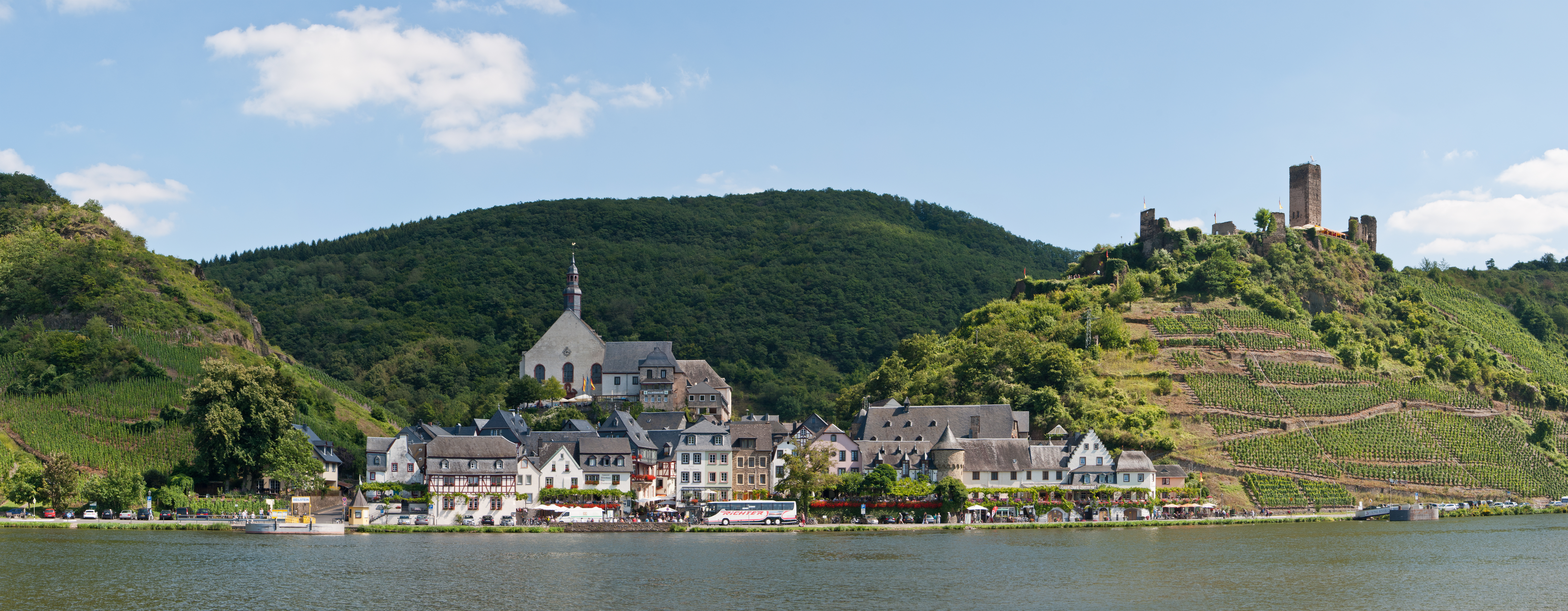 Beilstein (Rhineland-Palatinate, Germany) – panoramic view on the opposite bank of the river Moselle near Ellenz This is a photograph of an architectural monument.It is on the list of cultural monuments of Beilstein This photograph was taken with a Nikon D3000